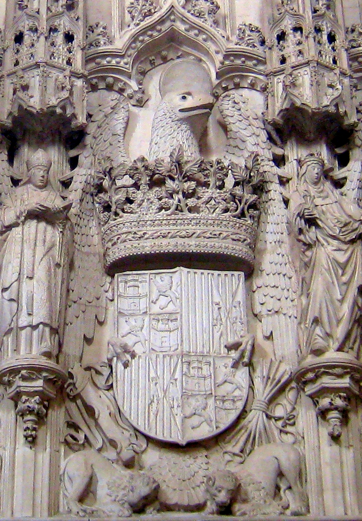 Coat of arms of the Catholic Monarcs in San Juan de los Reyes - Toledo, Spain.